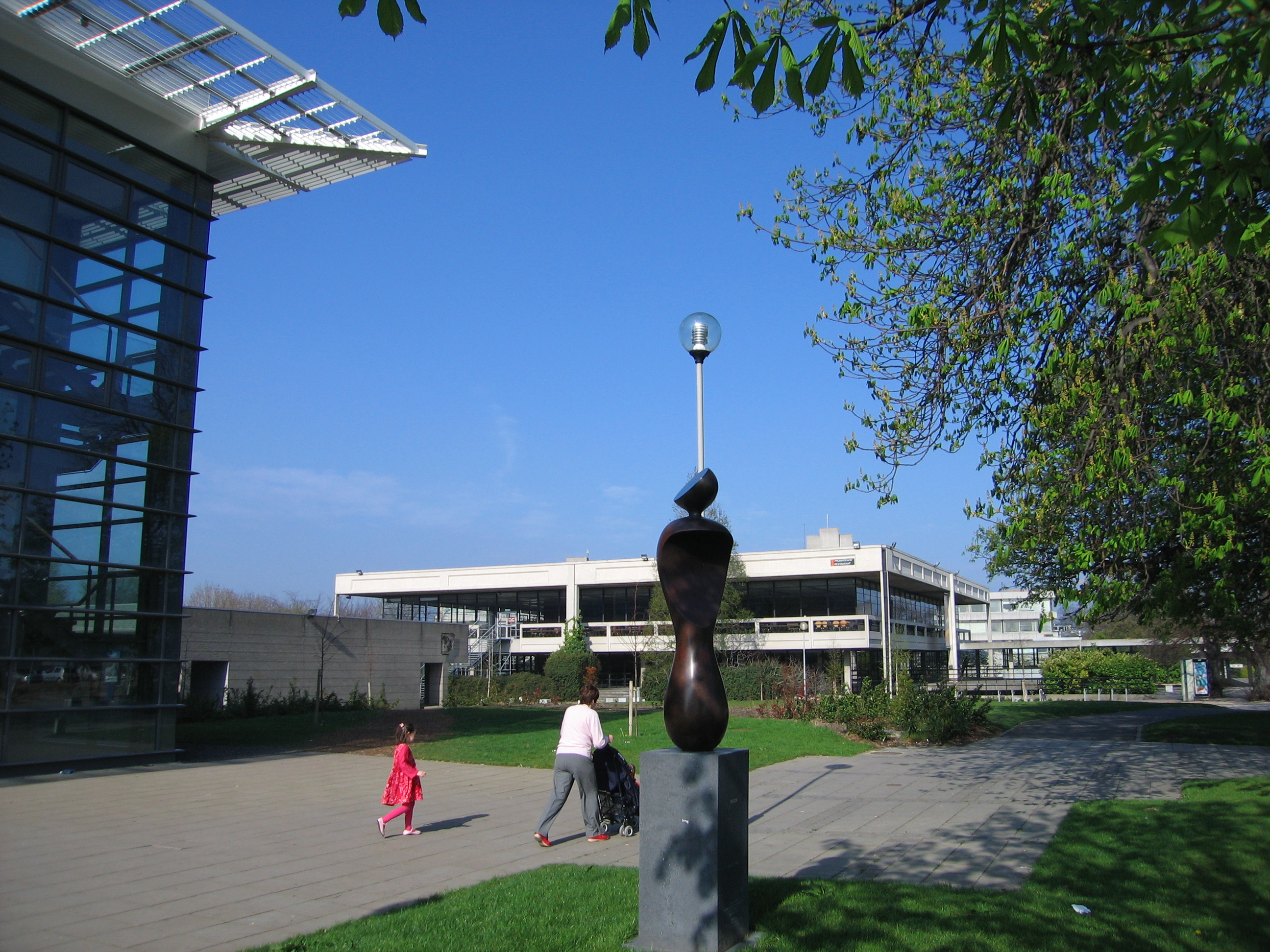 UCD, Belfield; the restaurant building in the distance; built circa 1970 just the Admin complex and Arts block. In the foreground, left is a post 2000 building. (I’m going from memory on this – please correct!)